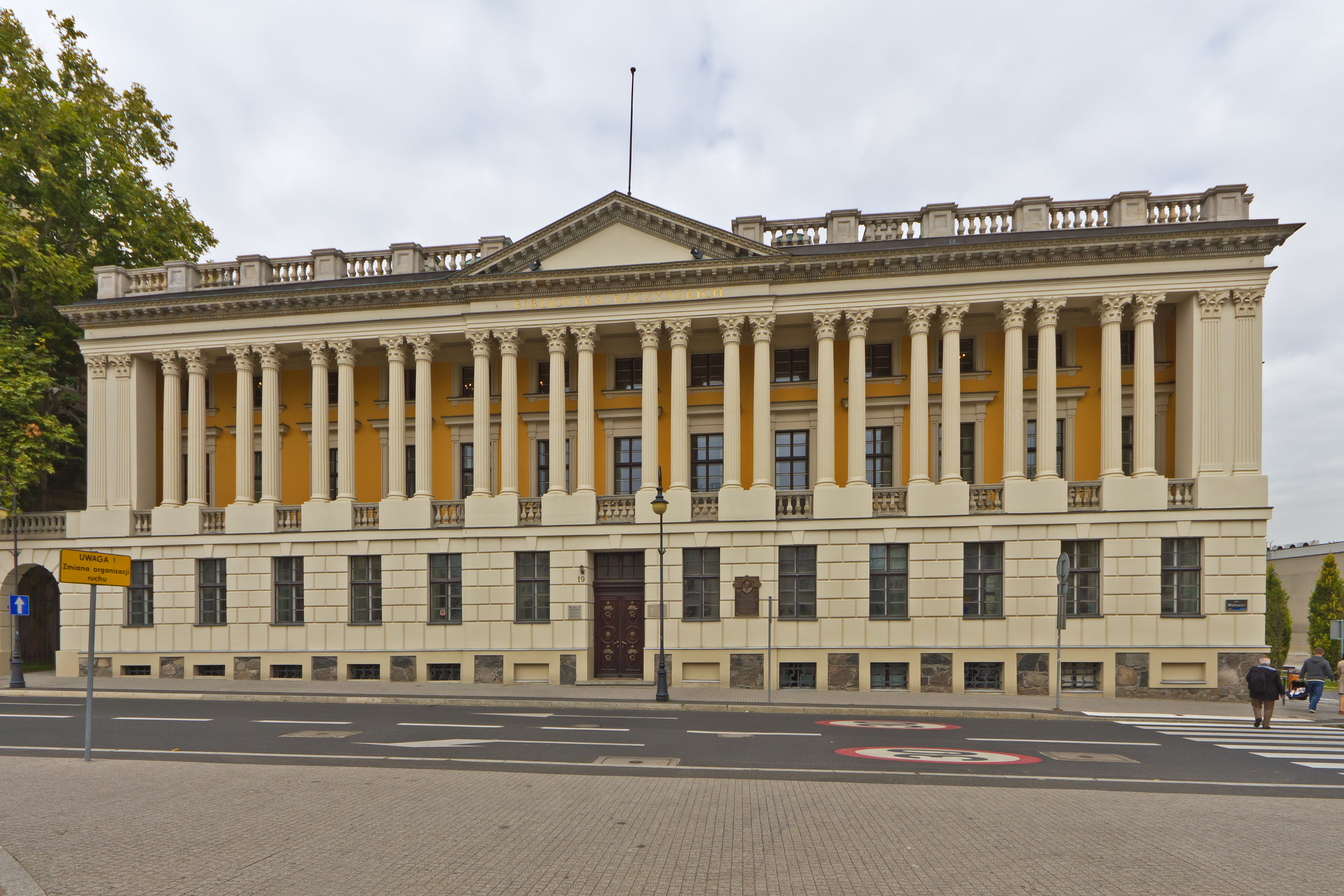 Raczyński Library in Poznań, Greater Poland